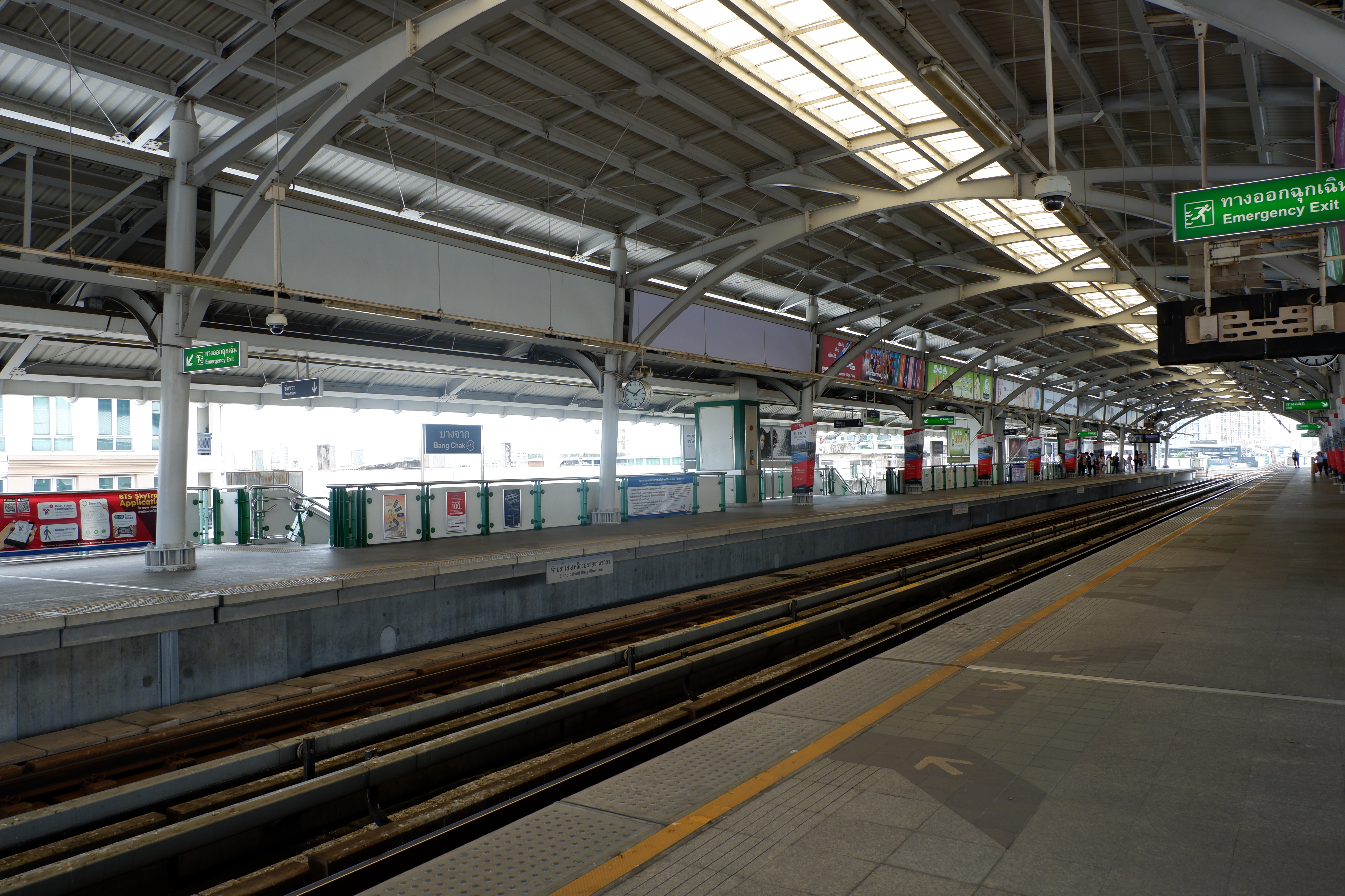 Bang Chak Station's platforms.